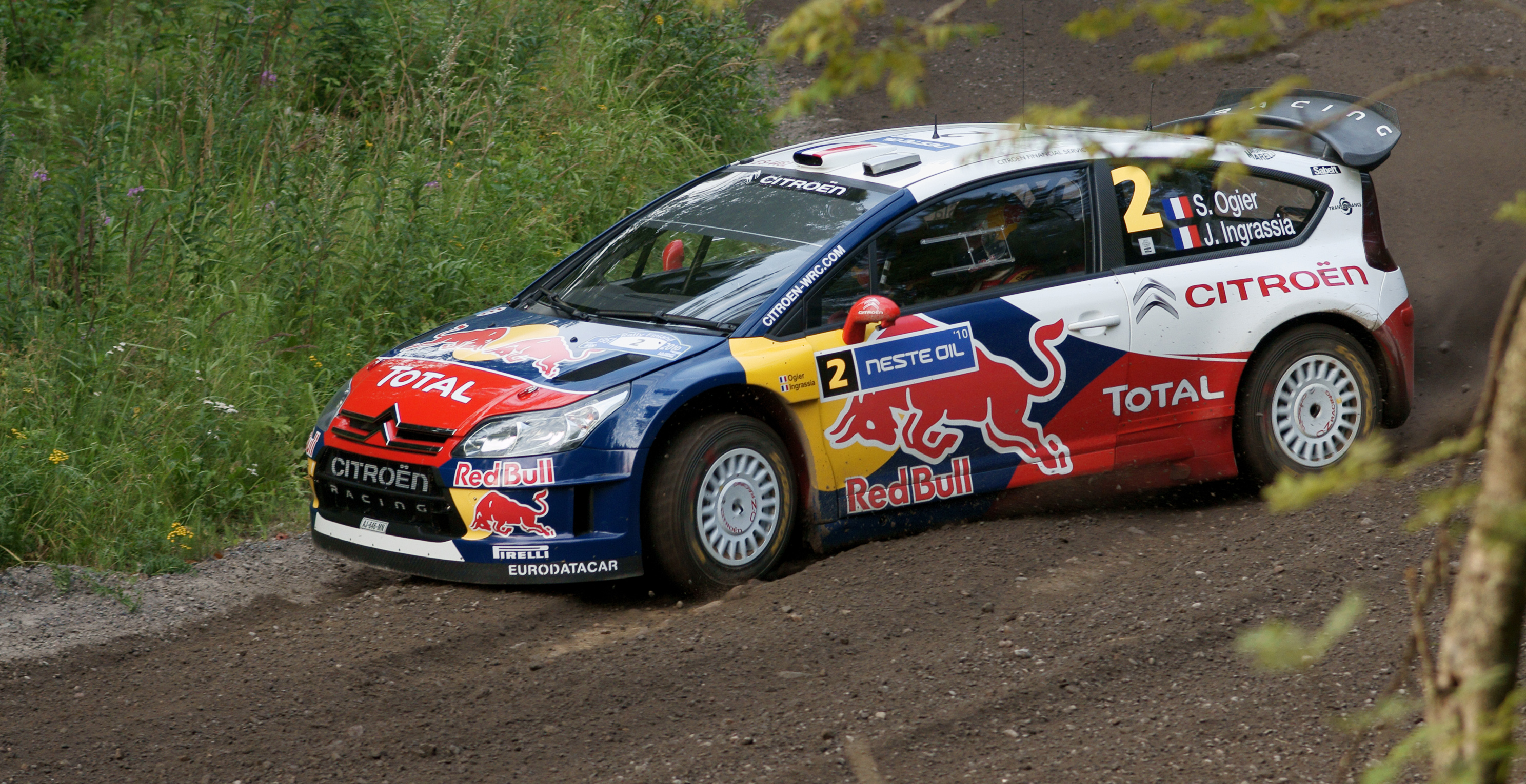 Sebastien Ogier driving at Laajavuori special stage, Rally Finland 2010.